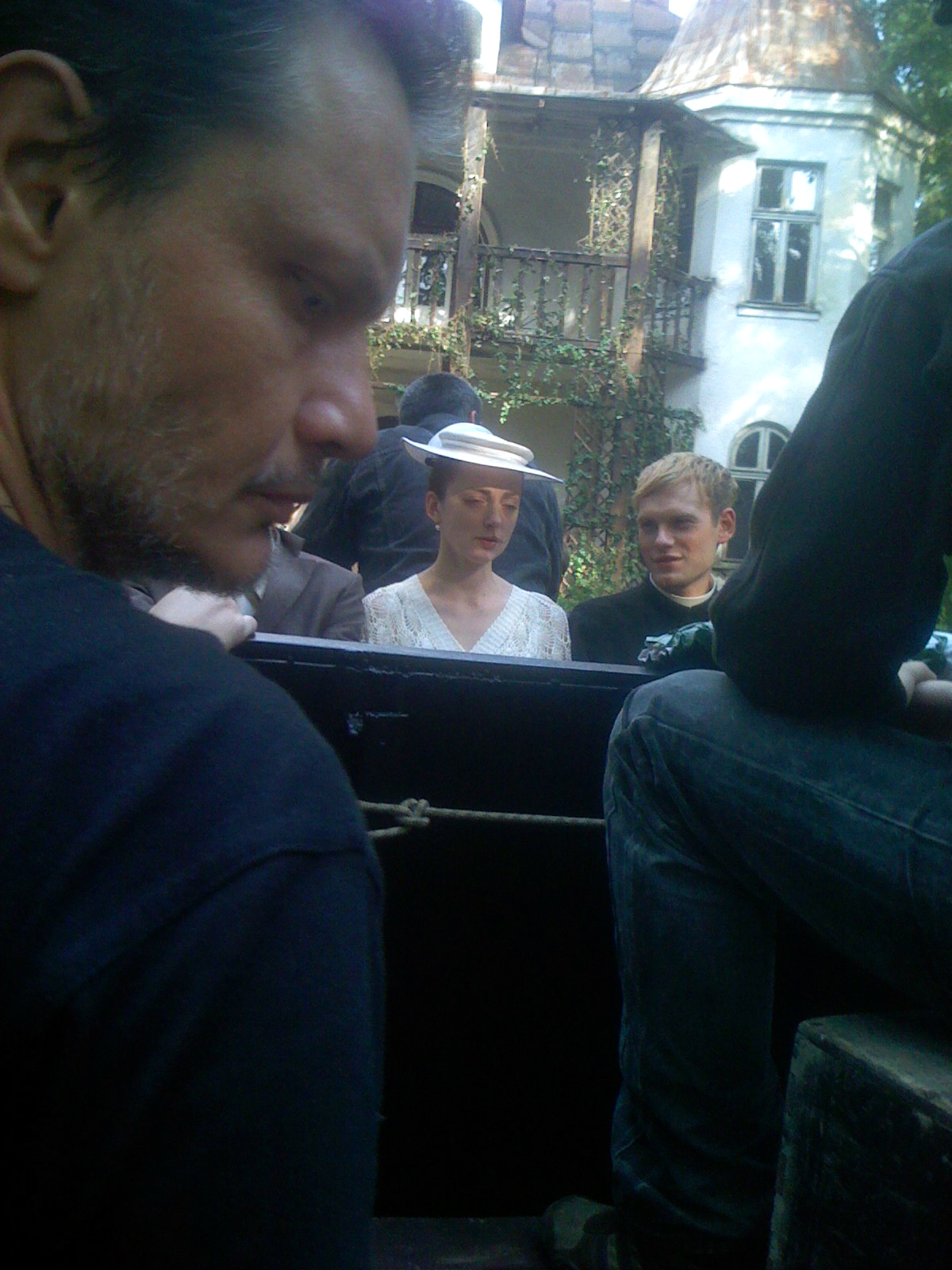 Ihor Podolchak at the movie set (Delirium), 2008